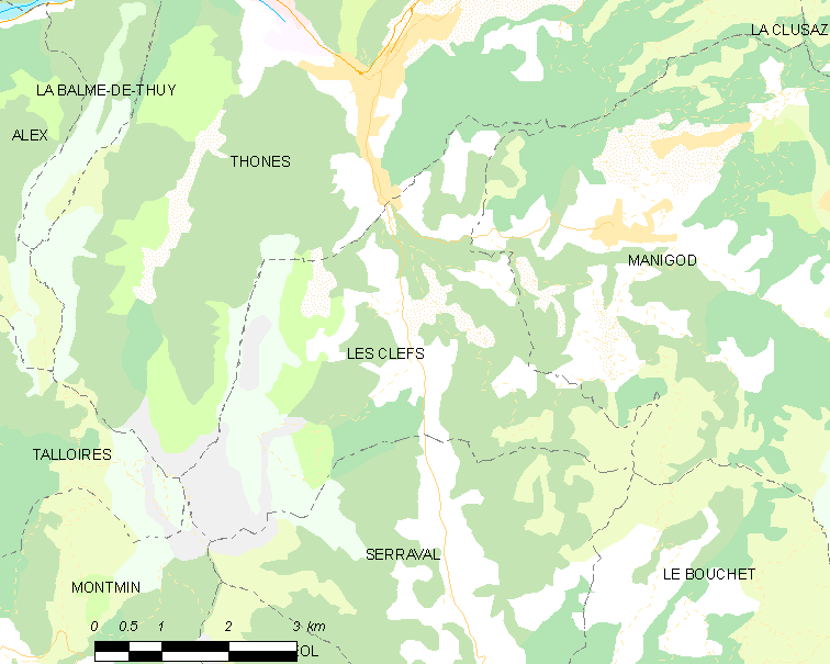 Map of French municipality Les Clefs